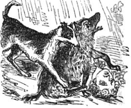 Woodcut(?)/engraving of hyena attack.